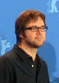 Brad Anderson at the Berlin Film Festival, 9 February 2008